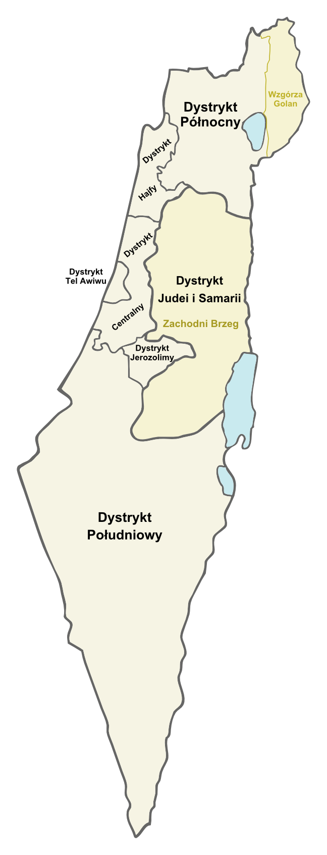 Map of the districts of Israel, Polish version